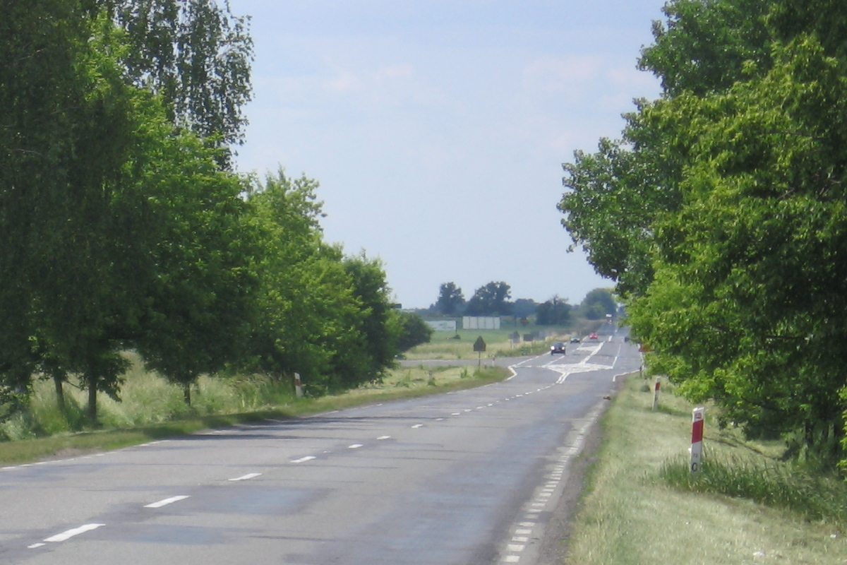 highway strip near Środa Śląska (Poland)